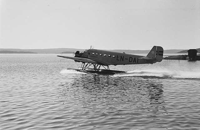 A Det Norske Luftfartsselskap Junker Ju 52 seaplane taking off from the seaplane base at Oslo Airport, Fornebu in Norway.